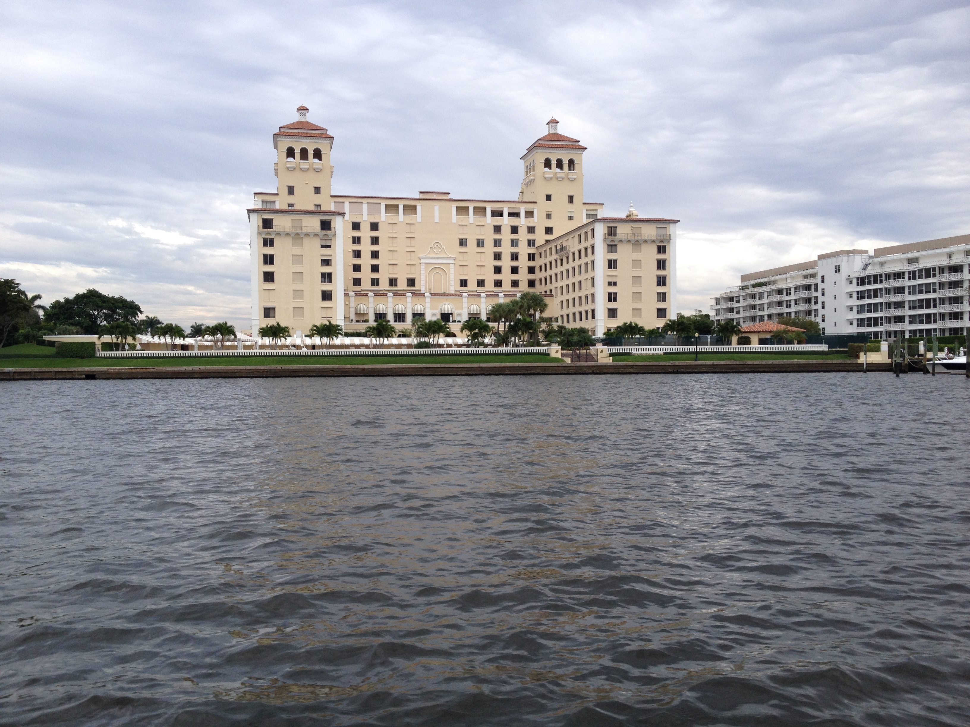 The old Biltmore on Palm Beach, Lake Worth , West Palm Beach, Florida